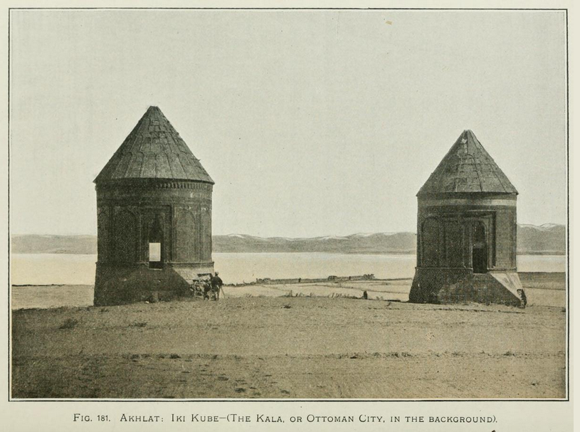 Two medieval Muslim tombs, known as kümbet, in the town of Ahlat.